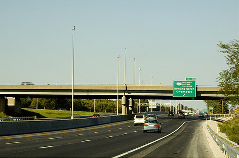 Interstate 65 northbound at the William H. Natcher Parkway in Bowling Green, Kentucky. The signage is new and in Clearview font.